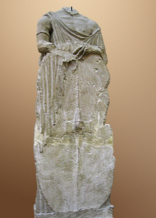 Statue of a Gaul warrior wearing a sagum and holding a Gaul shield ; Era : 1st century BC ; Found : in Mondragon, Vaucluse, France ; Location : Museum Calvet, Avignon, France ; Inventory number : G 137.